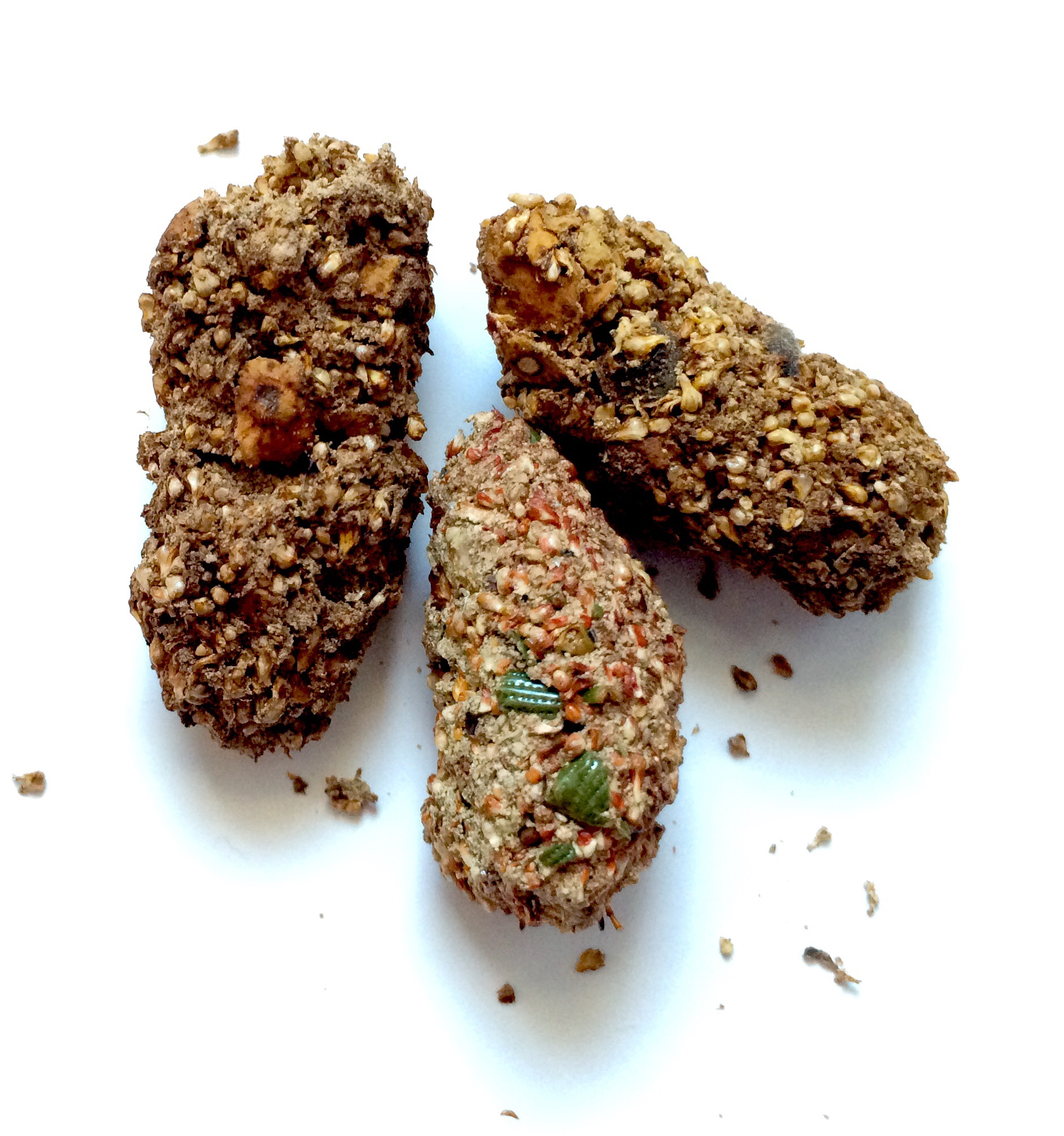 The regurgitated food of a pied currawong (Strepera graculina) in Sydney. The pellets are formed from the indigestible elements that the currawong has consumed e.g. bone, fur, plants and seeds. They measured up to 3 centimetres (1.2 in) long and were very light.